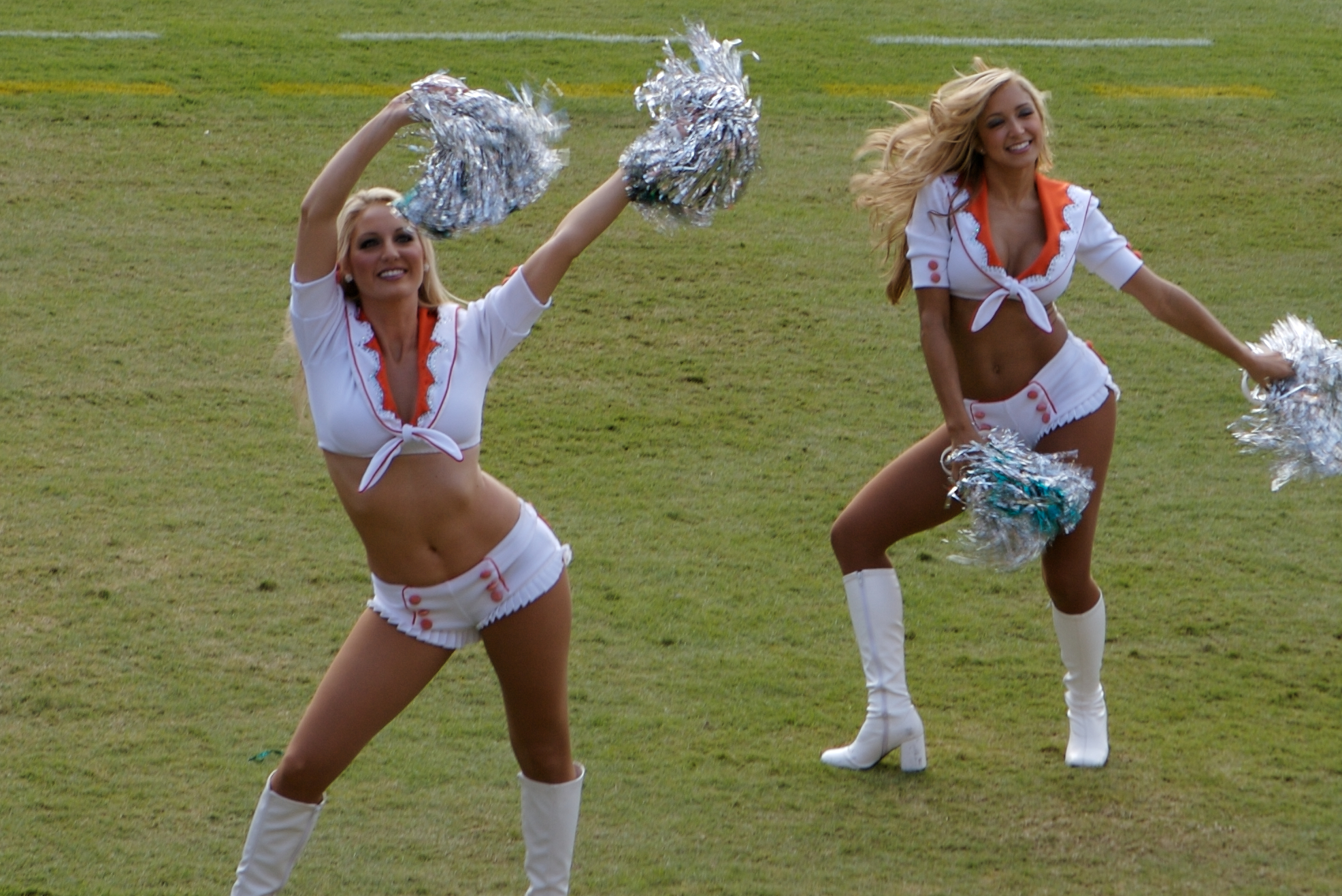 Two cheerleaders for the Miami Dolphins football team